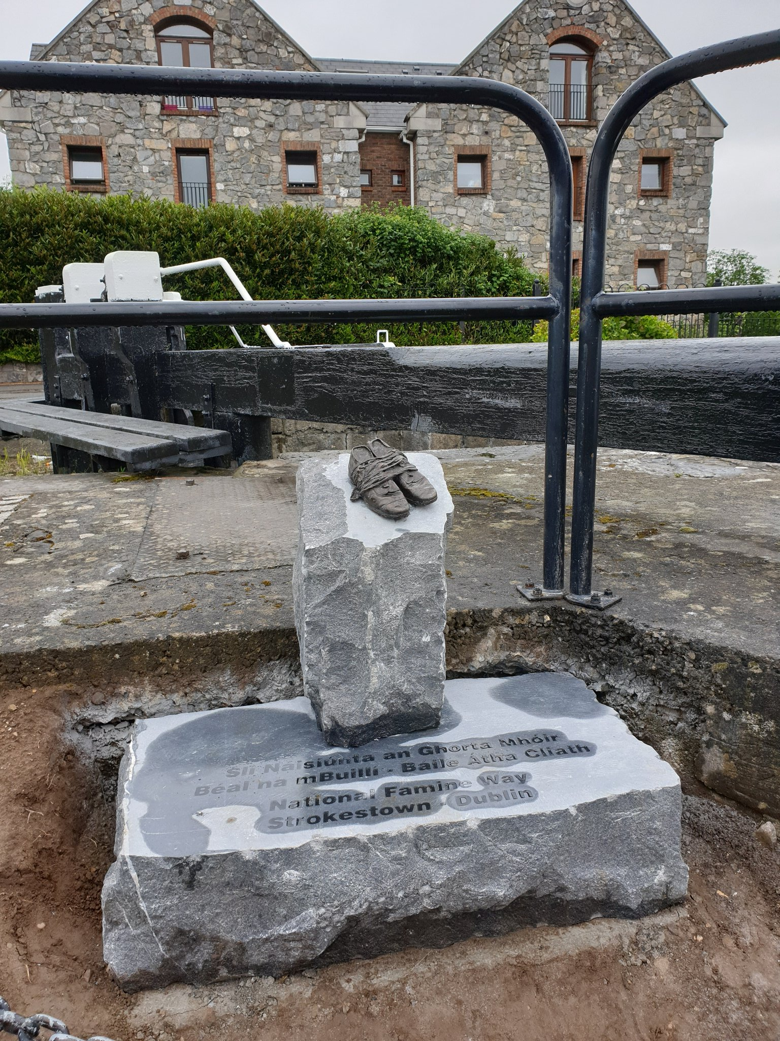 One of the memorials of the Famine Way along the Royal Canal Ireland, remembering 1,490 people who left @strokestownpark in 1847.